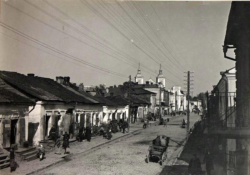 Church of Saint Simon and Anne in Volodymyr Volynsky